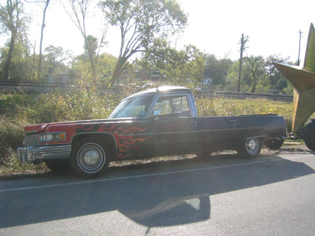 1975 Cadillac Hearse (former Miller-Meteor converted into a tow vehicle; this is NOT a flower car conversion!!!)